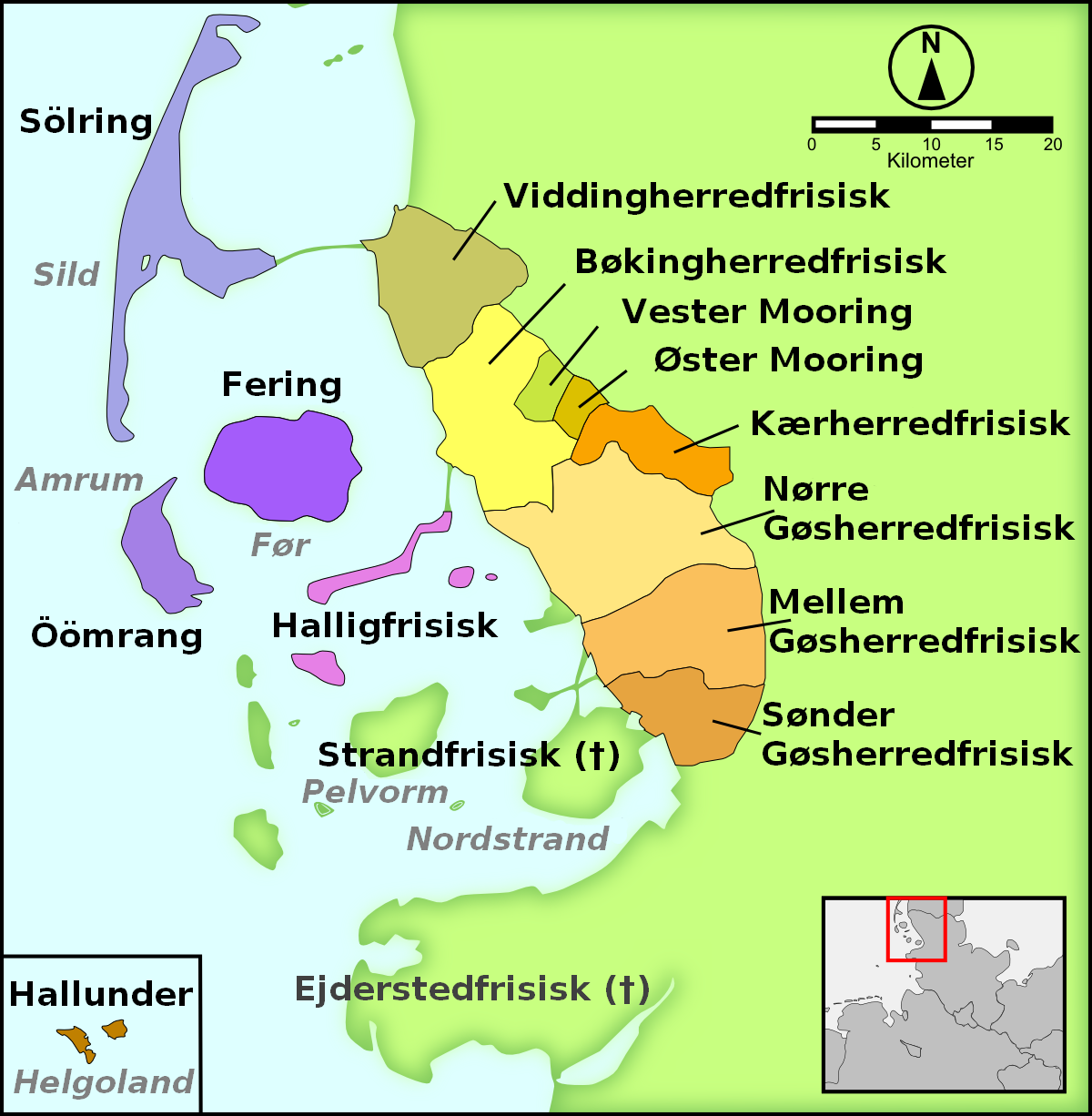 Map showing the distribution of North Frisian dialects (Danish translation)